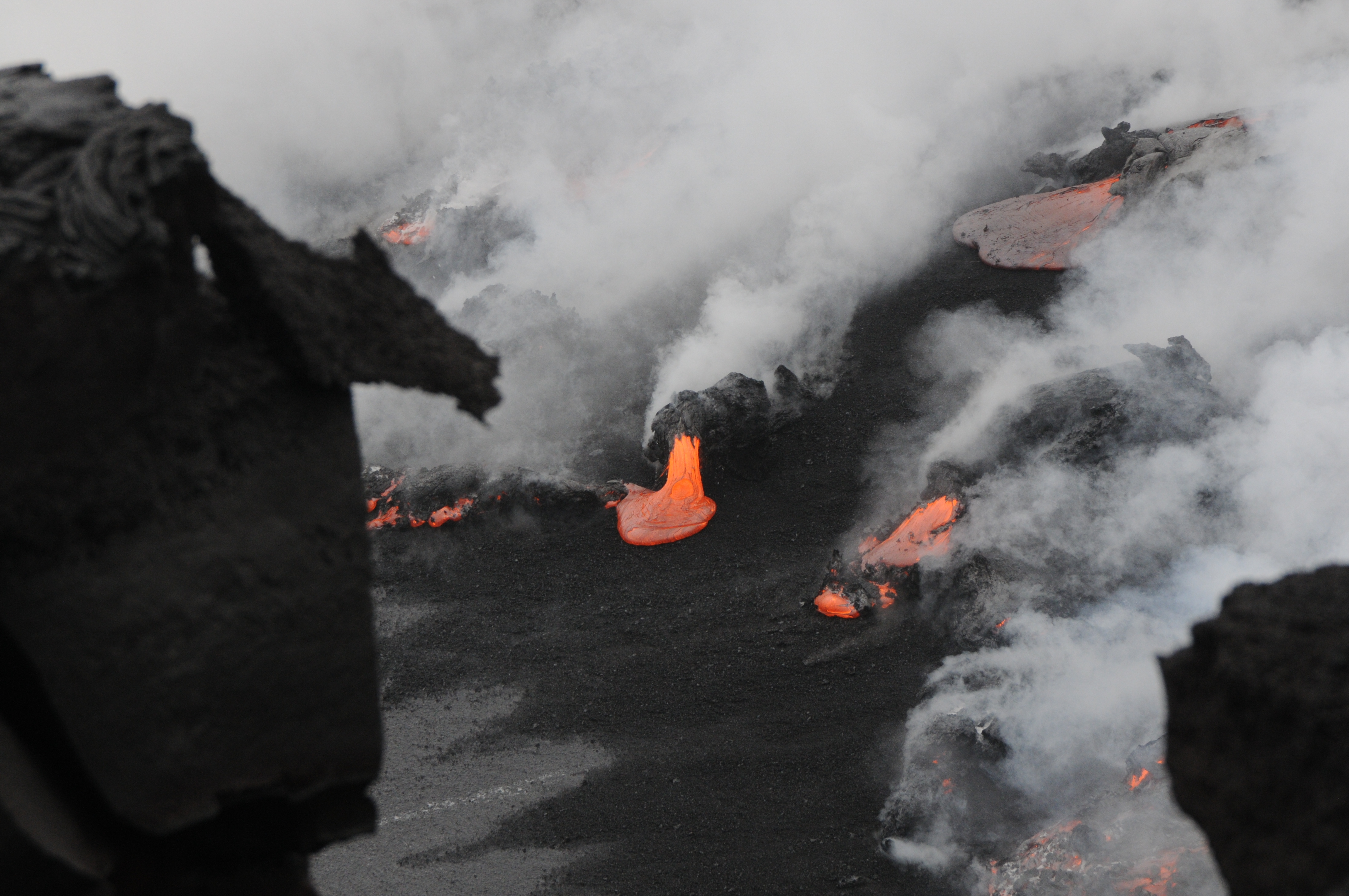 Image of black sand forming as lava hits ocean. Photo taken in November 2008 on Kilauea Volcano, Hawaii Island (Big Island), Hawaii USA. By Hawaii resident Philip Maise Pbmaise (talk) 08:44, 28 November 2011 (UTC)